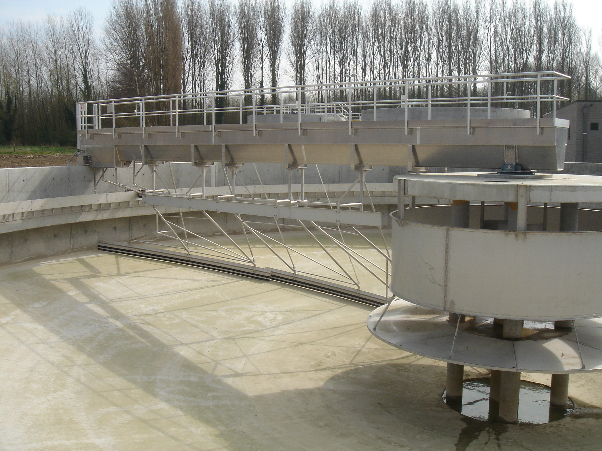 dry sedimentation tank at a large scale conventional sewage treatment plant in Merchtem - RWZI in Merchtem, Belgium (Aquafin) .